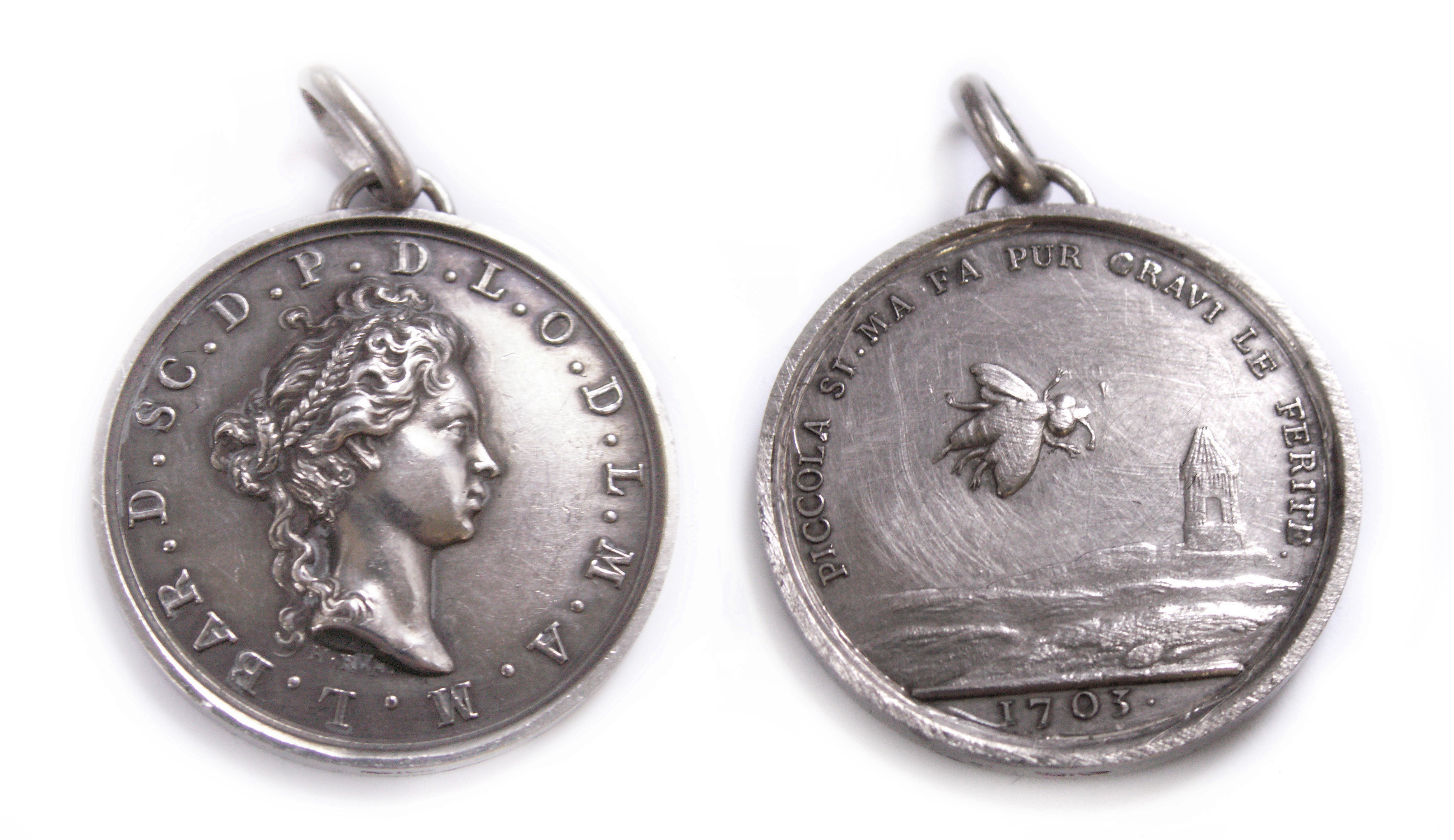 Order of the Honey Bee (Ordre de la Mouche à miel), Medal in Silver, post 1703. Property of Hofer Antikschmuck, Berlin (Germany).